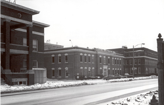 A view of the REO Motor Car Company factory, engineering building, and clubhouse, in Lansing, Michigan. The complex was a National Historic Landmark until 1985; landmark status was withdrawn due to the plant's demolition in 1980.